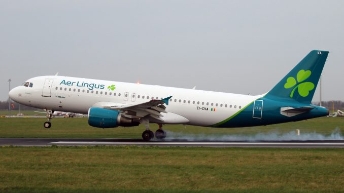 Plane taking off in rain.